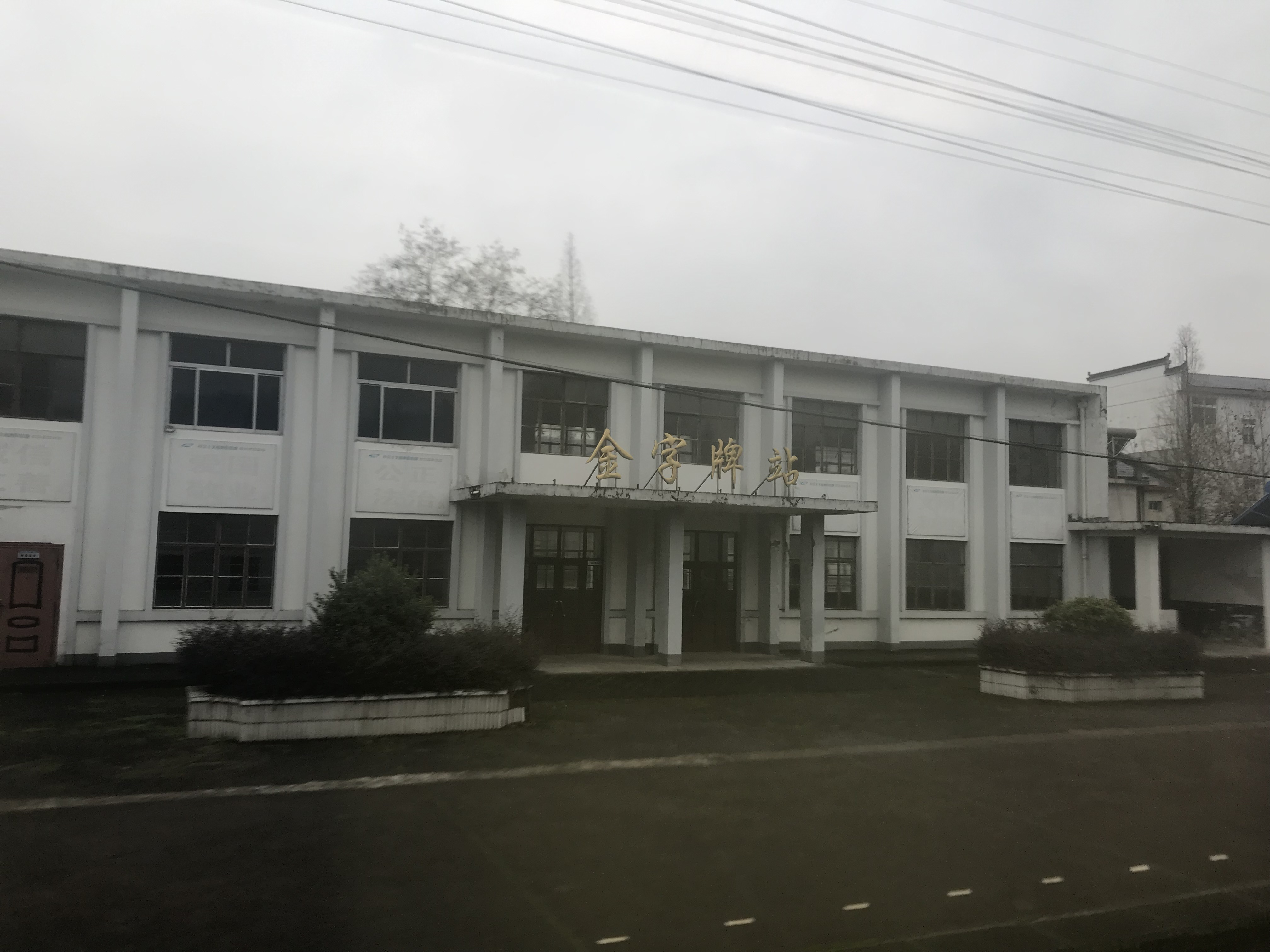 201901 Station Building of Jinzipai